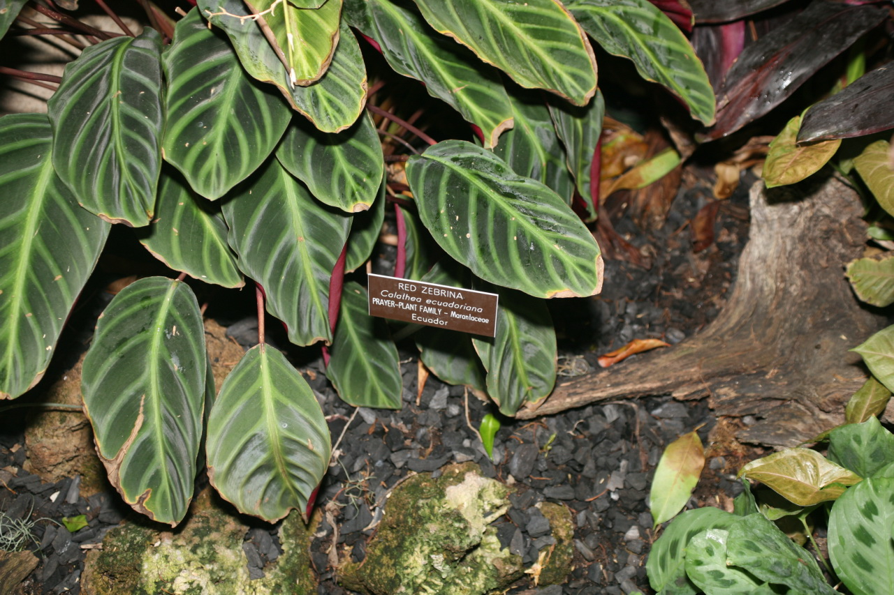 Calathea ecuadoriana Red Zebrina Prayer-Plant Family